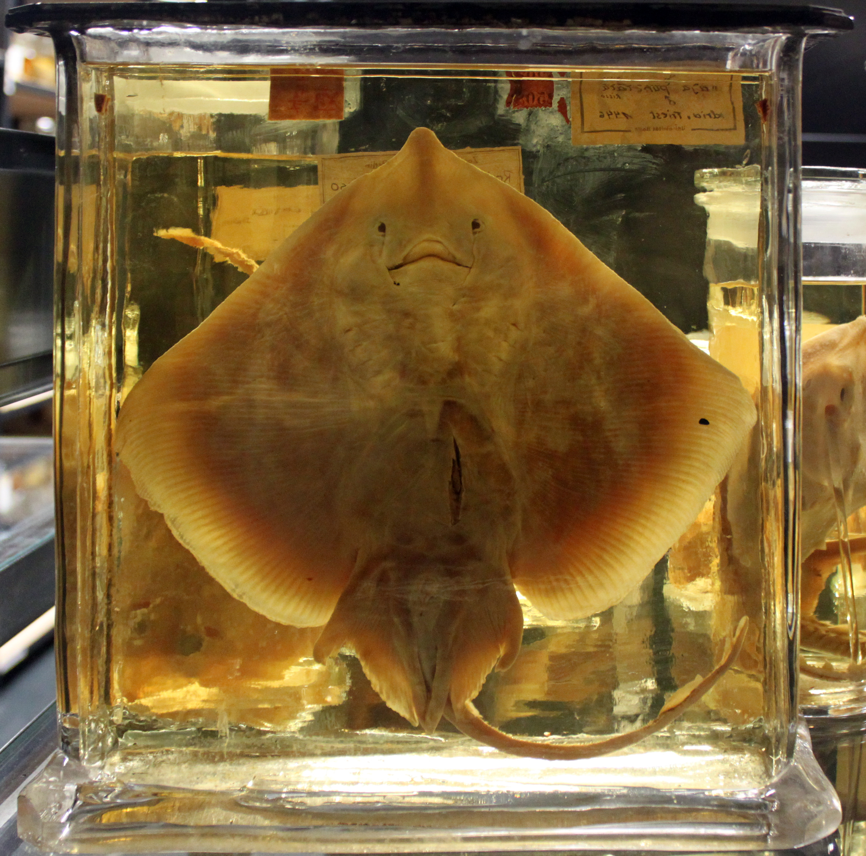 Unknown ray (Rajella), Museum of Natural History Berlin.